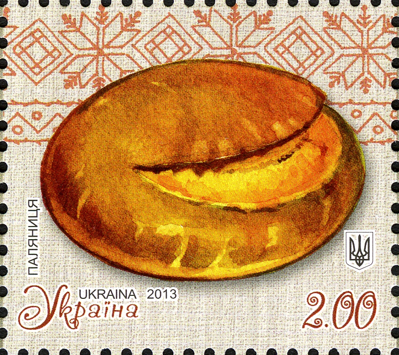 Stamps of Ukraine, 2013